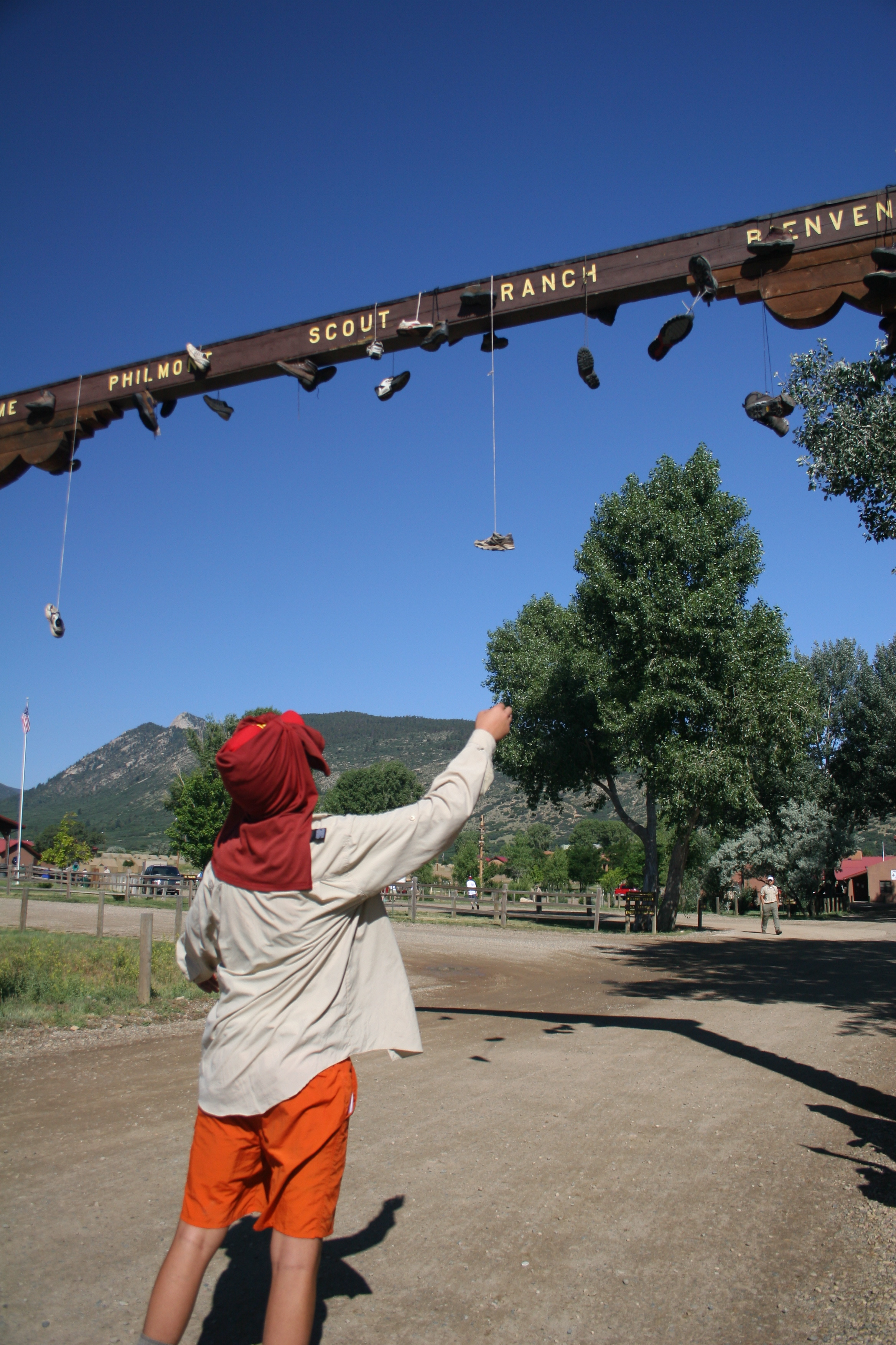 A Scout throws his boots around the sign at the Philmont Scout Ranch. During the summer of 2009, the sign was hit by a bus and subsequently removed.